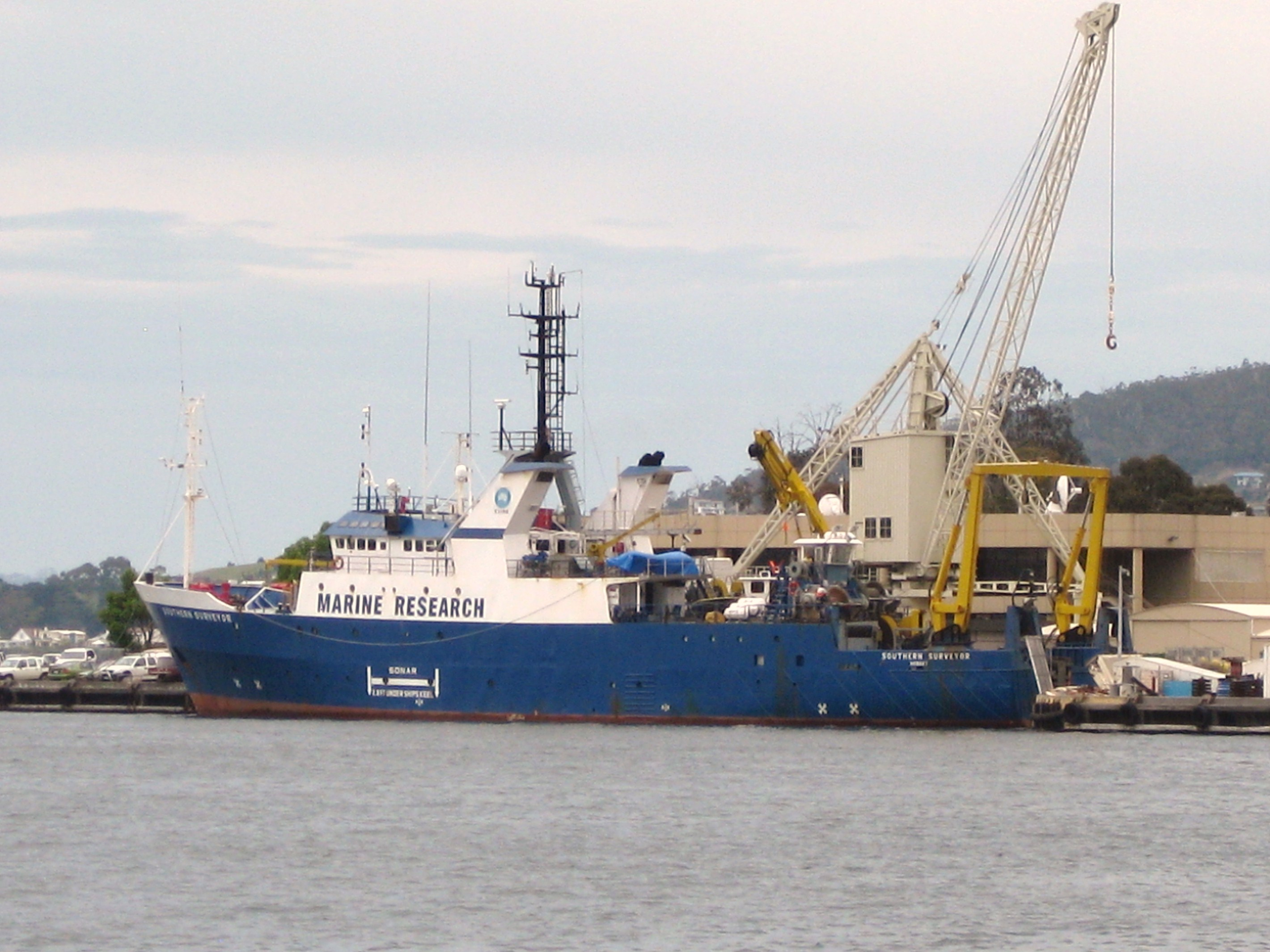 The RV Southern Surveyor at Hobart viewed from Sullivans Cove